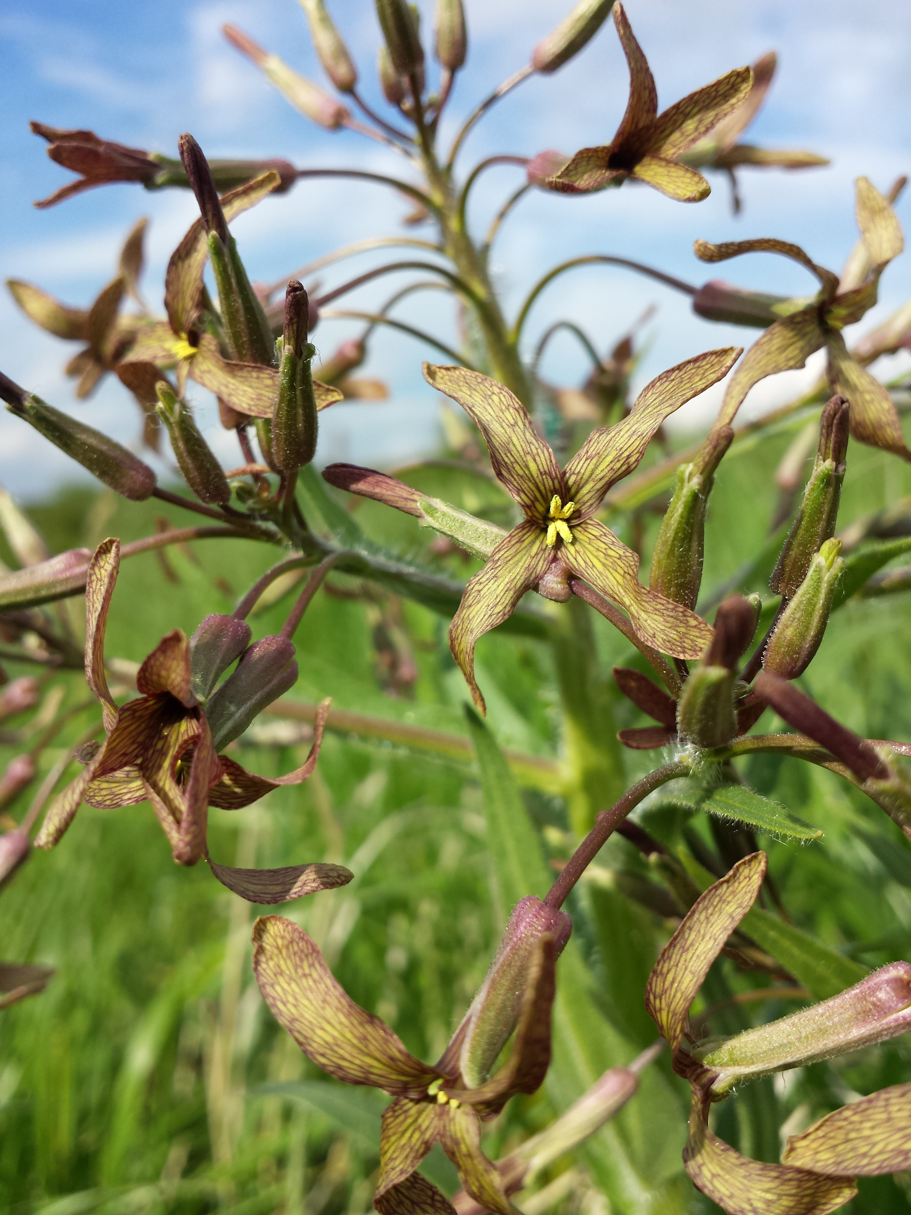 Inflorescence Taxonym: Hesperis tristis ss Fischer et al. EfÖLS 2008 ISBN 978-3-85474-187-9 Location: Tabulová hora near Klentnice, Jihomoravský kraj, Czech Republic - ca. 450 m a.s.l. Habitat: dry grassland on lime stone